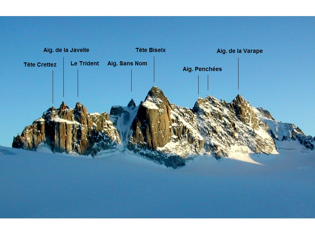 Aiguilles Dorées - Mont Blanc massif - Switzerland